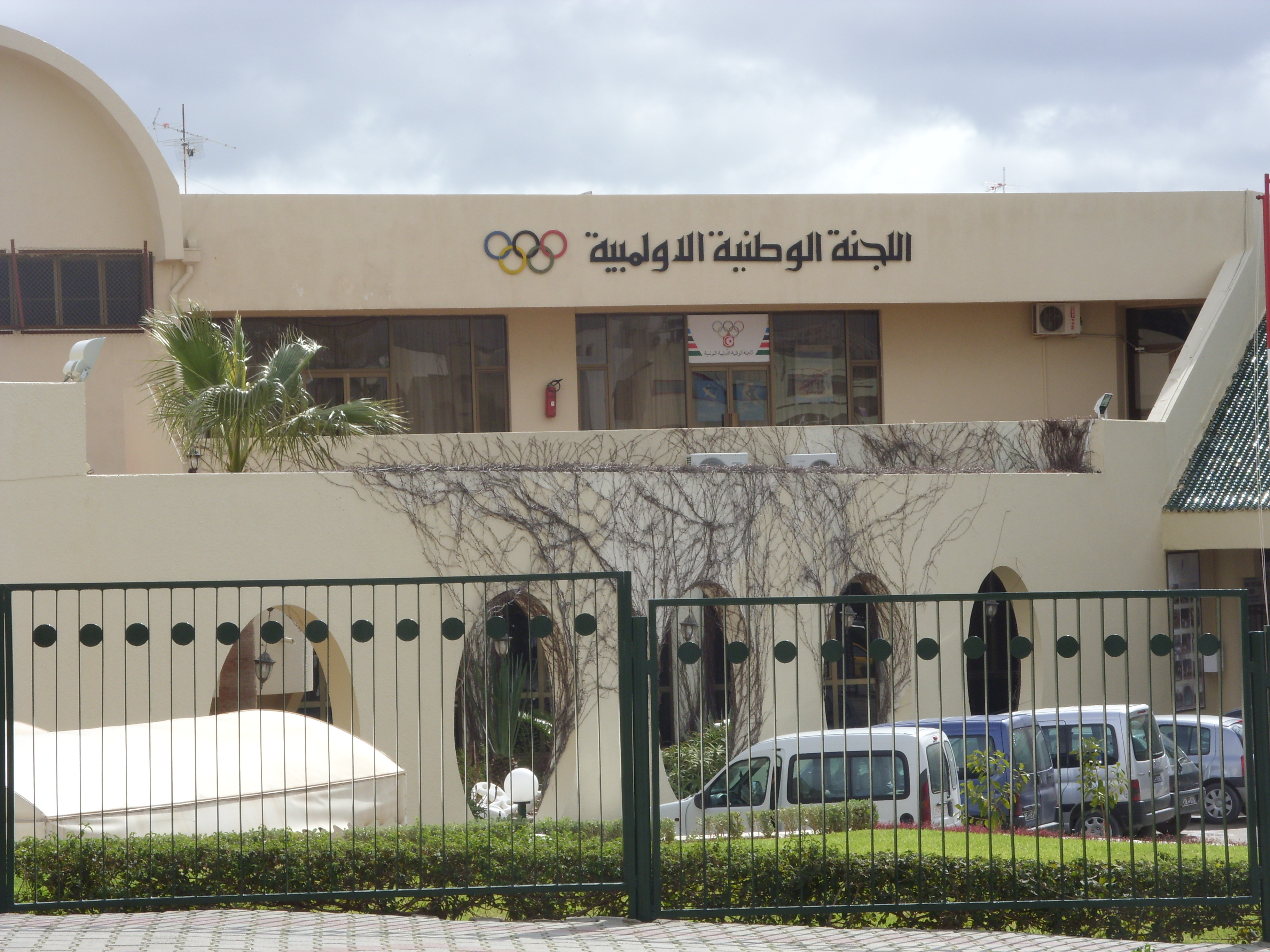 Headquarters of Tunisian Olympic comitee